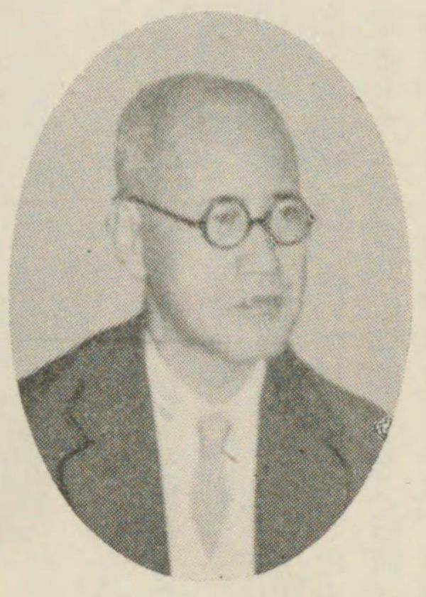 Chōjo Ie